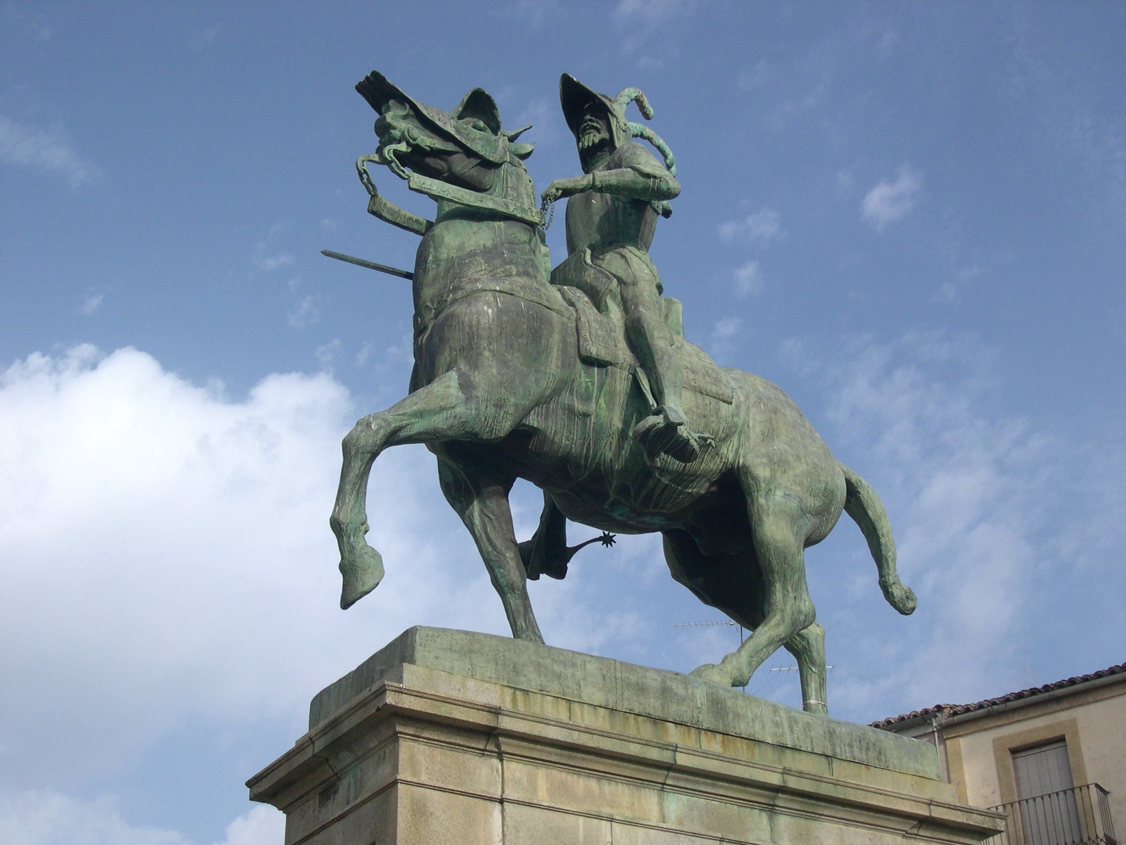 Bronze equestrian statue of Francisco Pizarro in Trujillo (Cáceres, Extremadura, Spain).